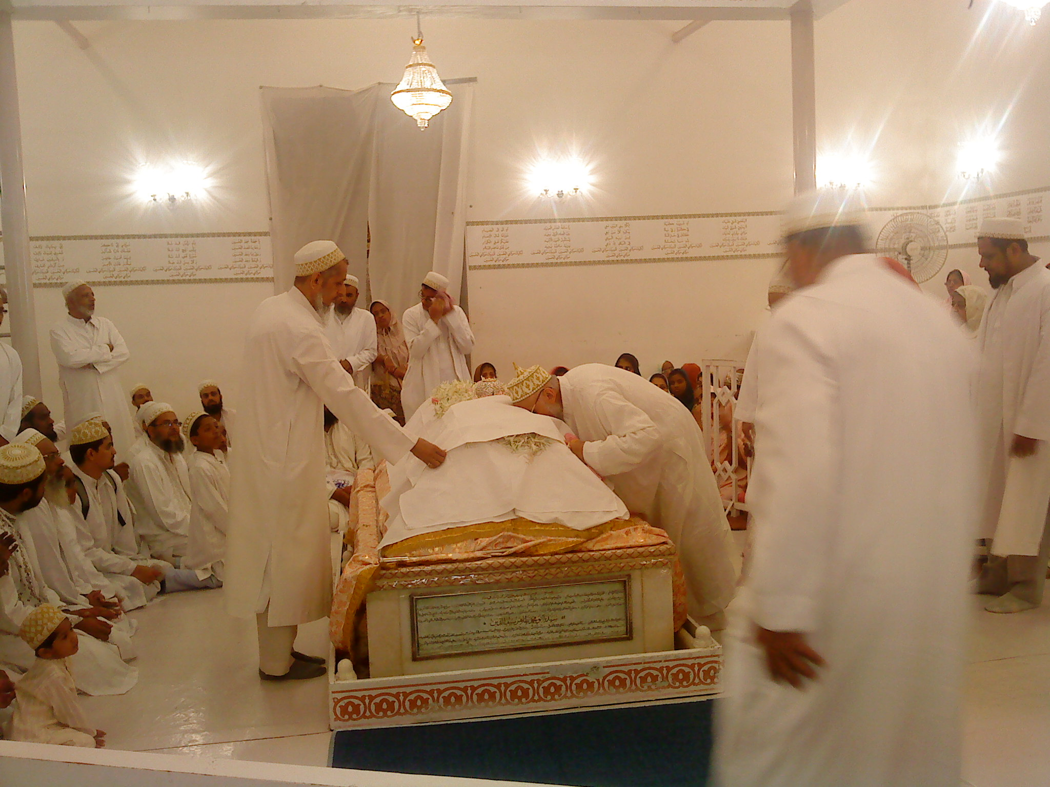 Grave_Dai_Taher_Saifuddin